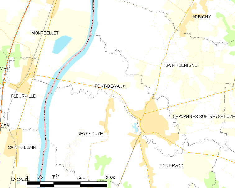 Map of French commune: Pont-de-Vaux Map commune FR insee code 01305.png